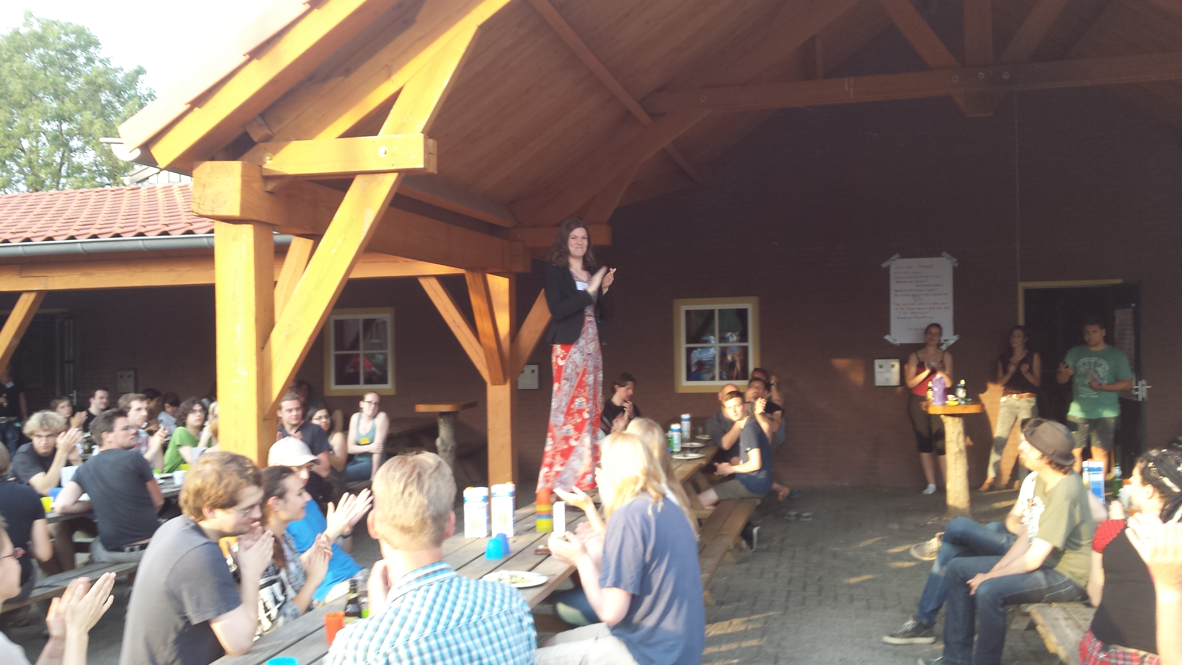 At the end of the European Young Humanist Summer Weekend (7–10 August 2015), IHEYO president Nicola Young Jackson thanks the organisers with a round of applause.